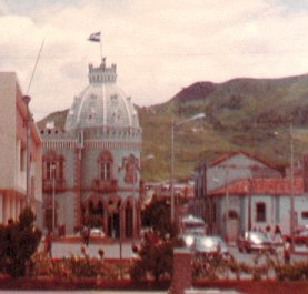 Description The Presidential Palace of Tegucigalpa (1980) Photographer Infrogmation